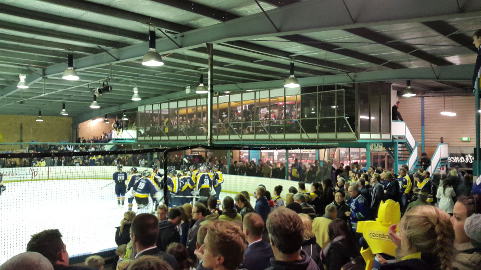 AIHL CBR Brave Match Day experience at the Brave Cave (Phillip Ice Skating Centre) 25 April 2015